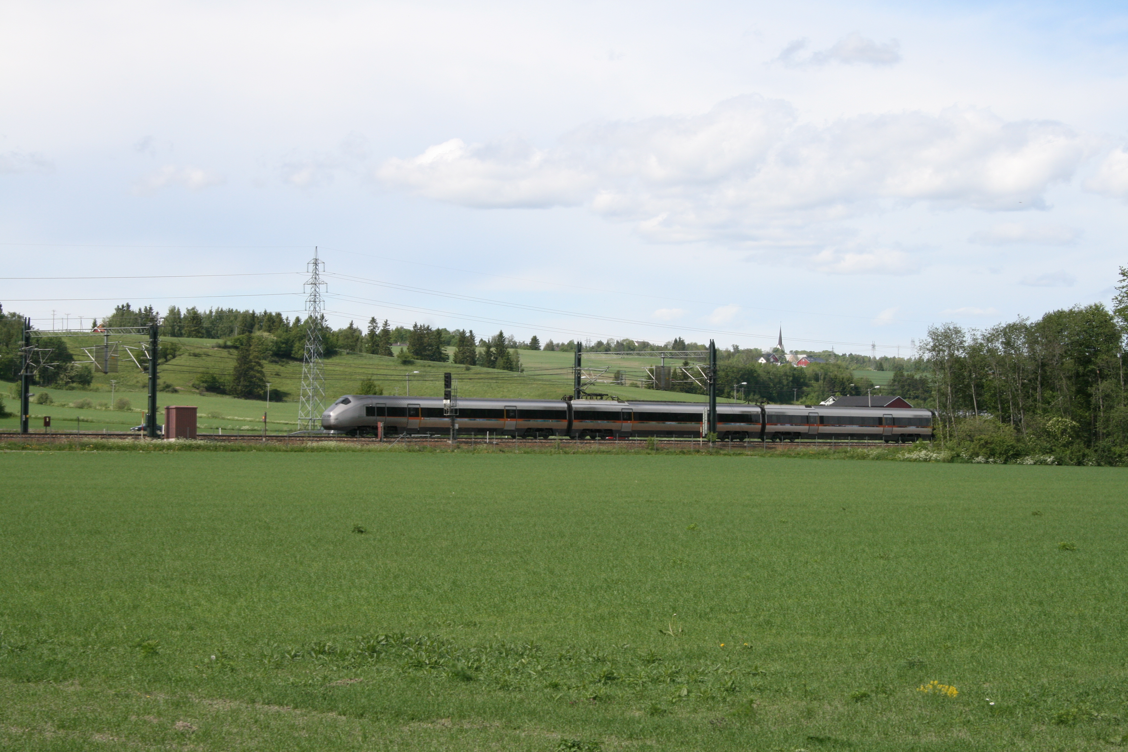 Airport Express Train Class 71 on the Gardermoen Line, Norway